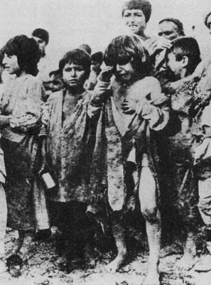 Clamoring for admittance: Armenian orphans at the Gyumri orphanage gates